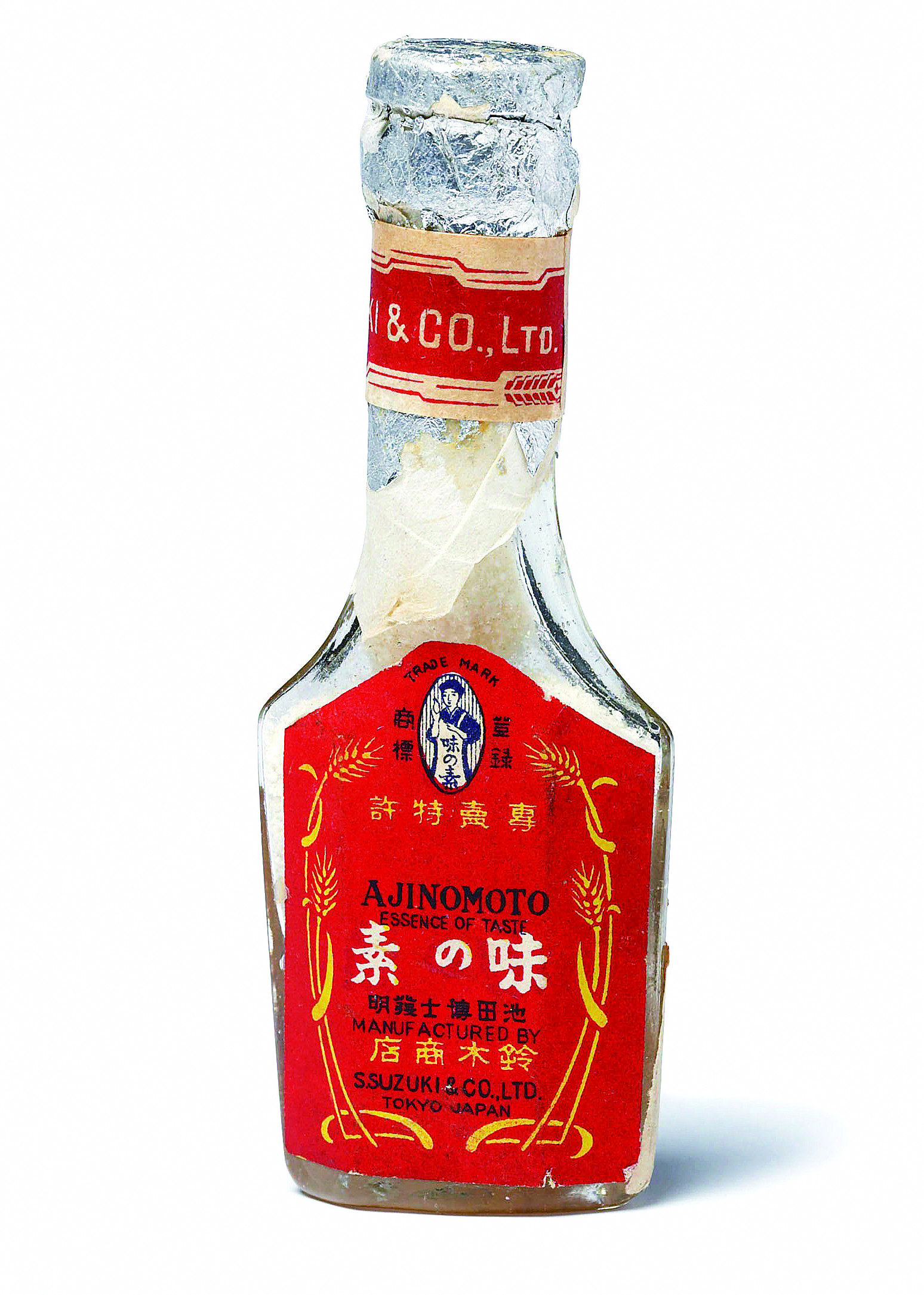 AJI-NO-MOTO